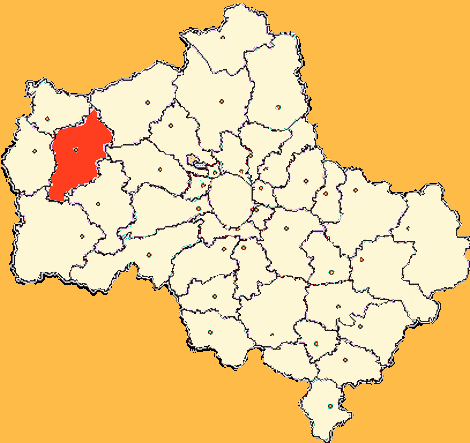 Moscow Region map by Al Silonov